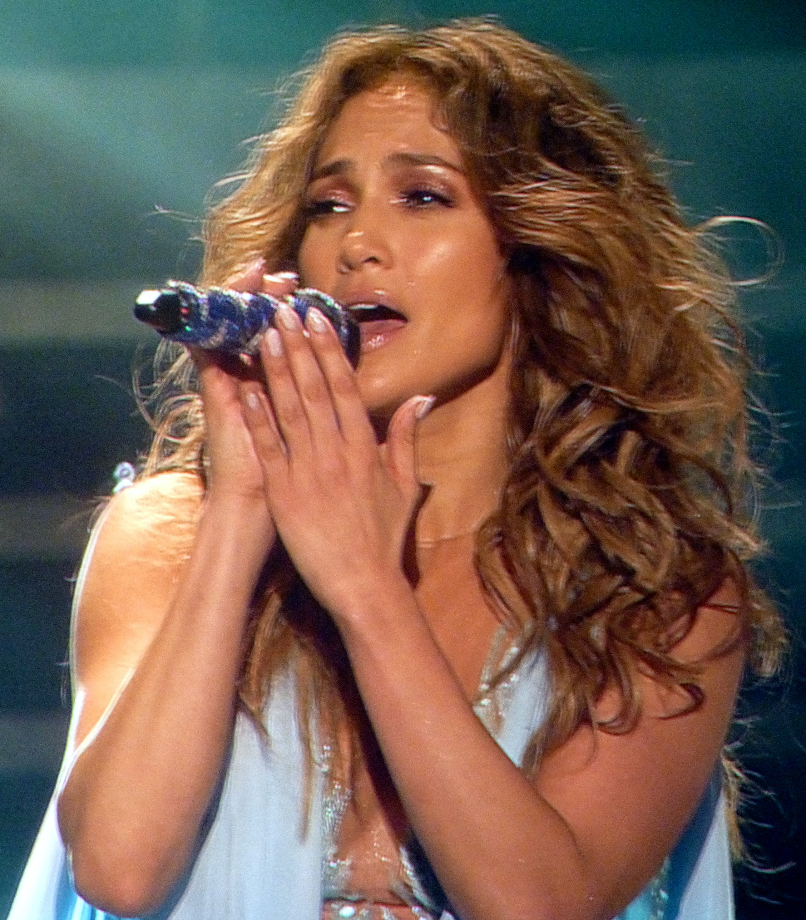 Jennifer Lopez in concert at Paris Bercy in the "Dance Again World Tour" in October 2012.